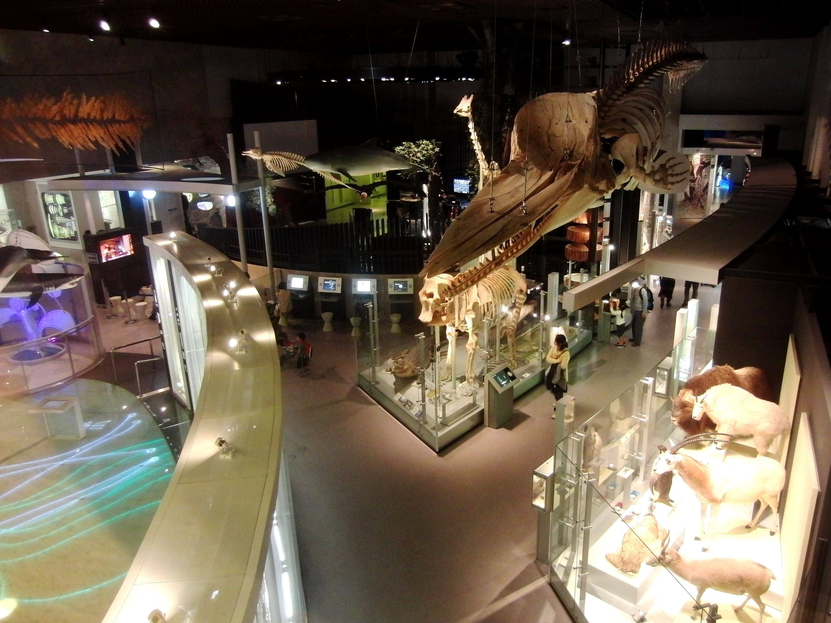 Skeleton of Sperm Whale.Exhibition in the National Museum of Nature and Science,Tokyo,Japan.Global Gallery 1F.